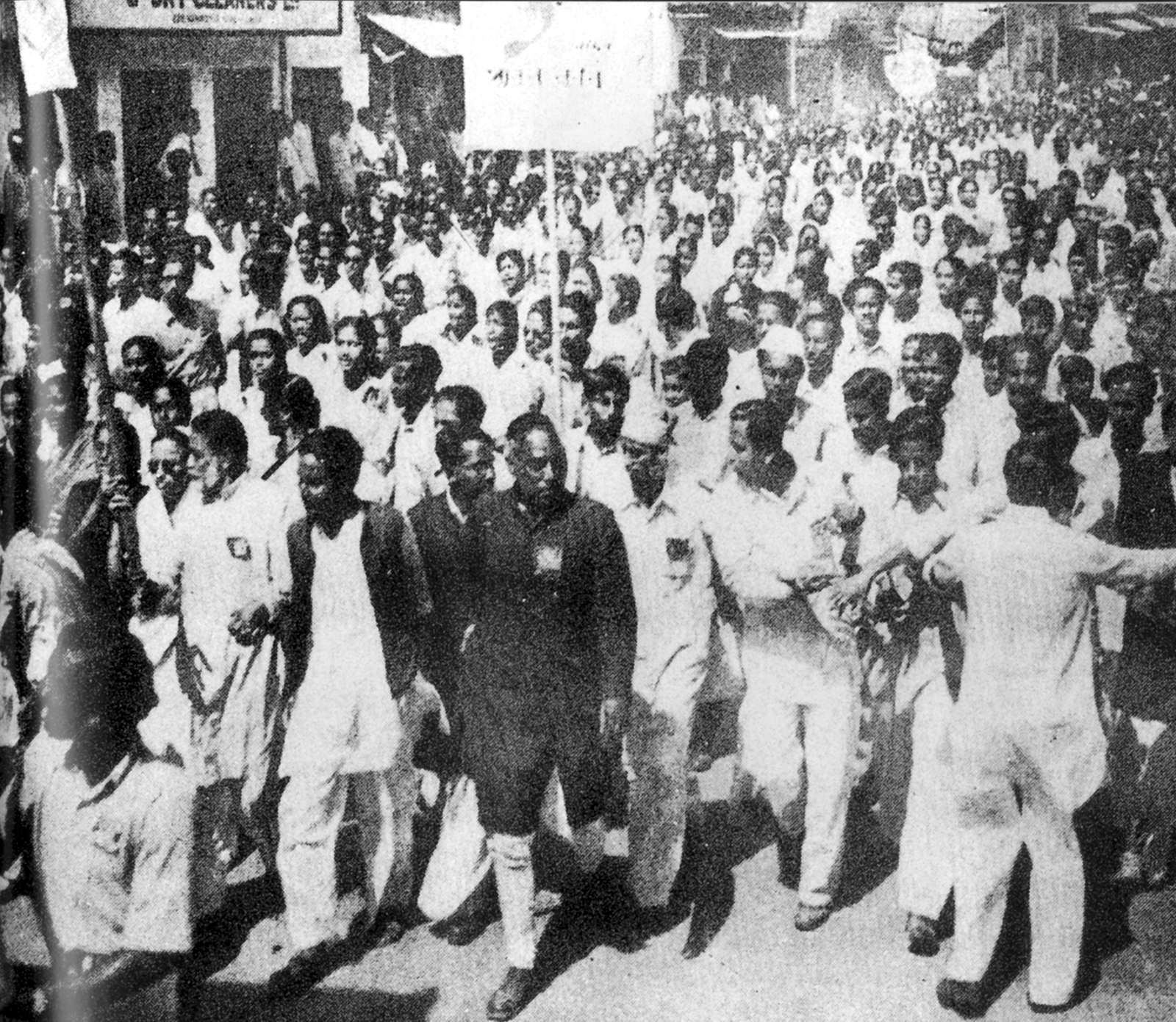 21st February, 1954. Rally on the roads of Dhaka led by Ataur Rahman Khan and Oli Ahmed on the second martyrs' day.